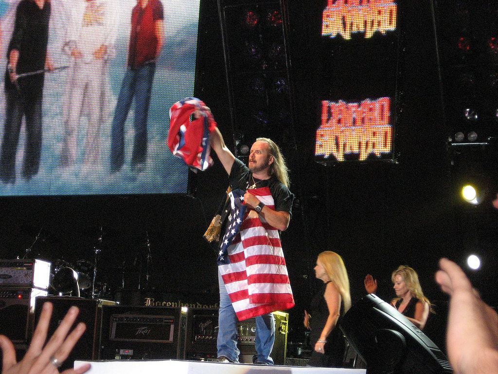 Lynyrd Skynyrd in concert - New Brockton, Alabama, June 7, 2008